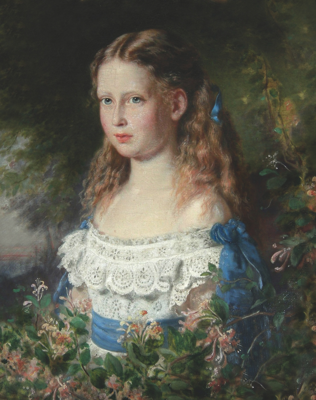 Princess Victoria of Hesse (1863-1950), later Princess Louis of Battenberg